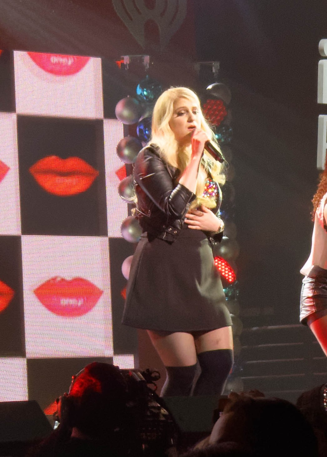 Meghan Trainor singing "Lips Are Movin" during the Jingle Ball Tour